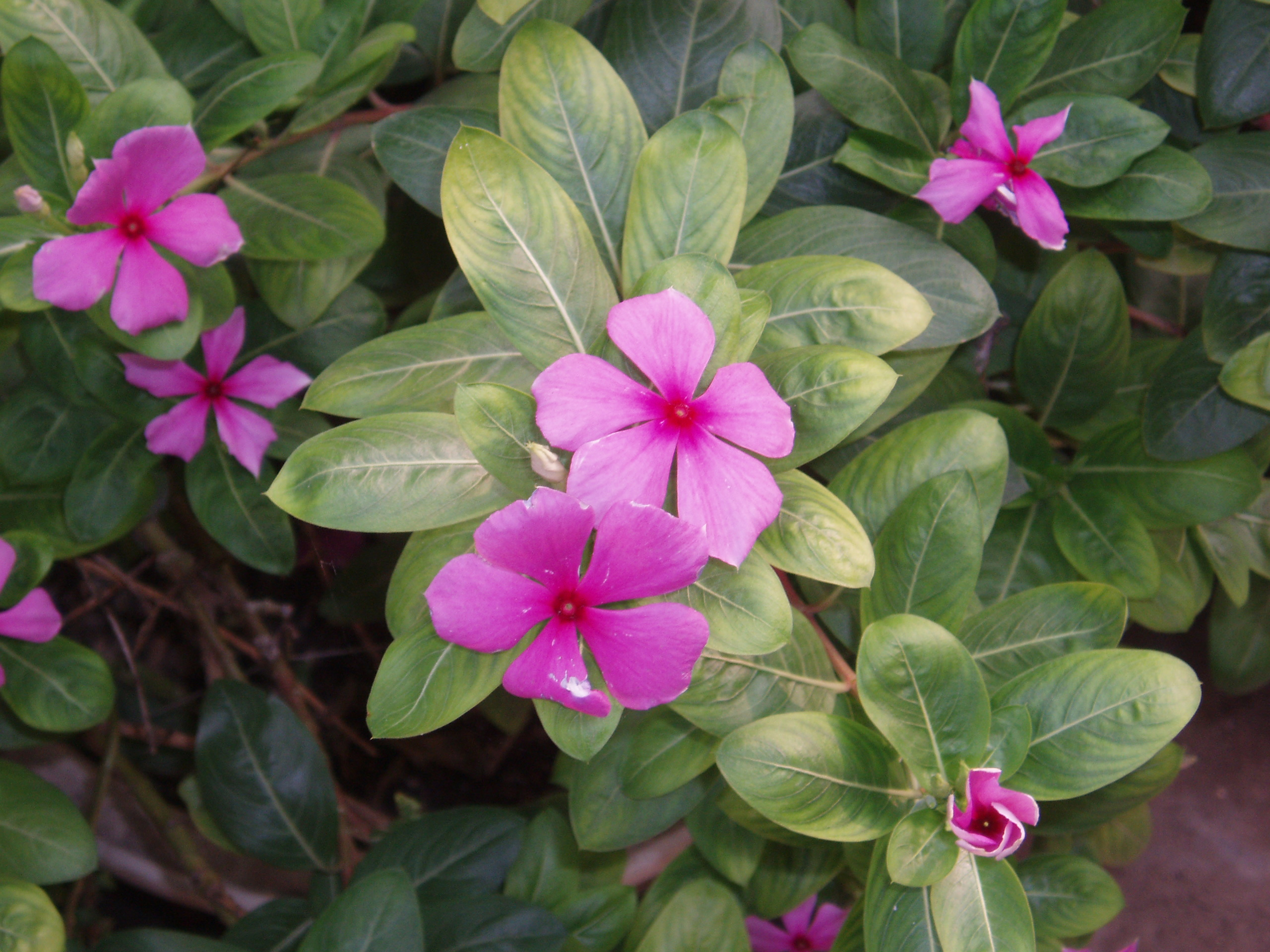 Vinca flowers